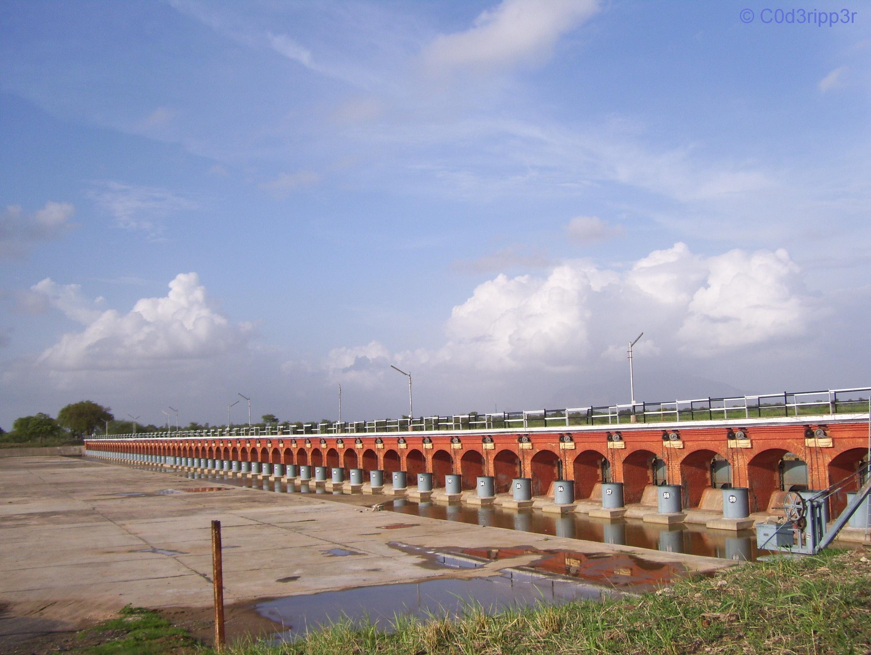 Ajwa is a reservoir located about 10 miles east of the city of Vadodara, Gujarat, India. This images shows the 62 Doors of Ajwa reservoir